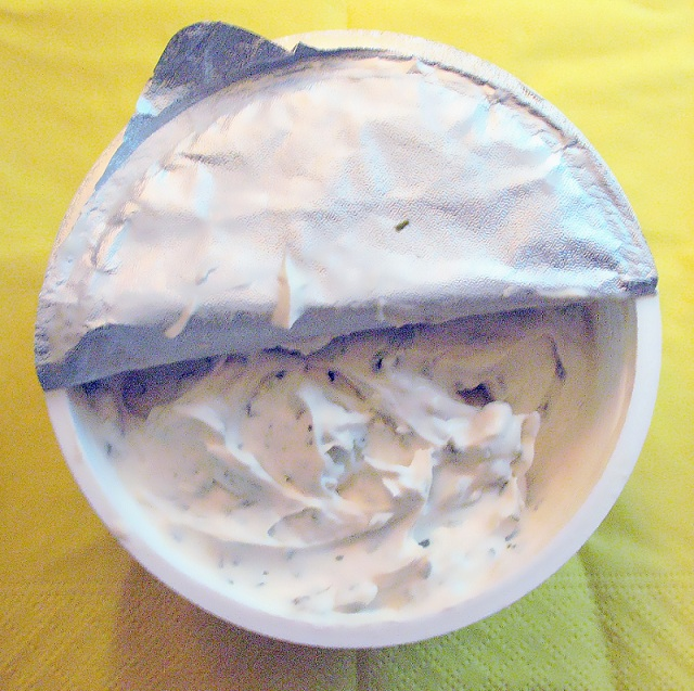 Chives in creamy Sheese, a 100% vegan alternative to herb seasoned cream cheese